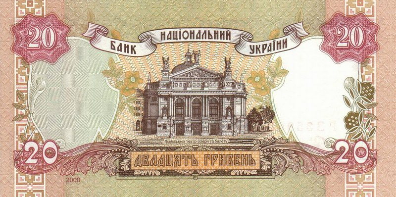 20 Hryvnia banknote (Ukraine), 2000, back